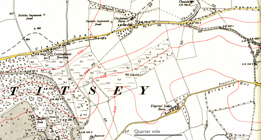 Detail from Six-inch sheet XXVII NW, 1914 edition (reprinted 1941). Colour addition by uploader.